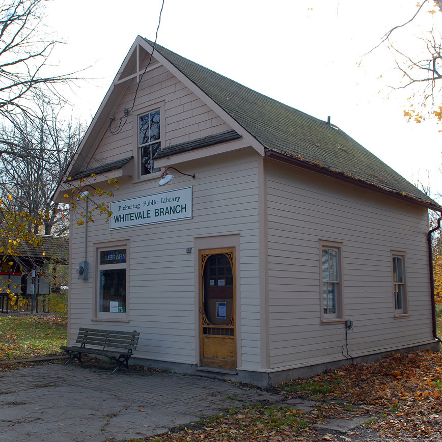 Whitevale Library; local branch of the Pickering Public Library System